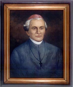 A portrait of Archbishop Juan López (1613 - 1674). Juan López was Archbishop of Manila from 1672 untill his death in 1674.